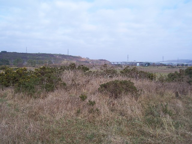 Crymlyn Burrows. Gorse and scrub are colonising and stabilizing the burrows here